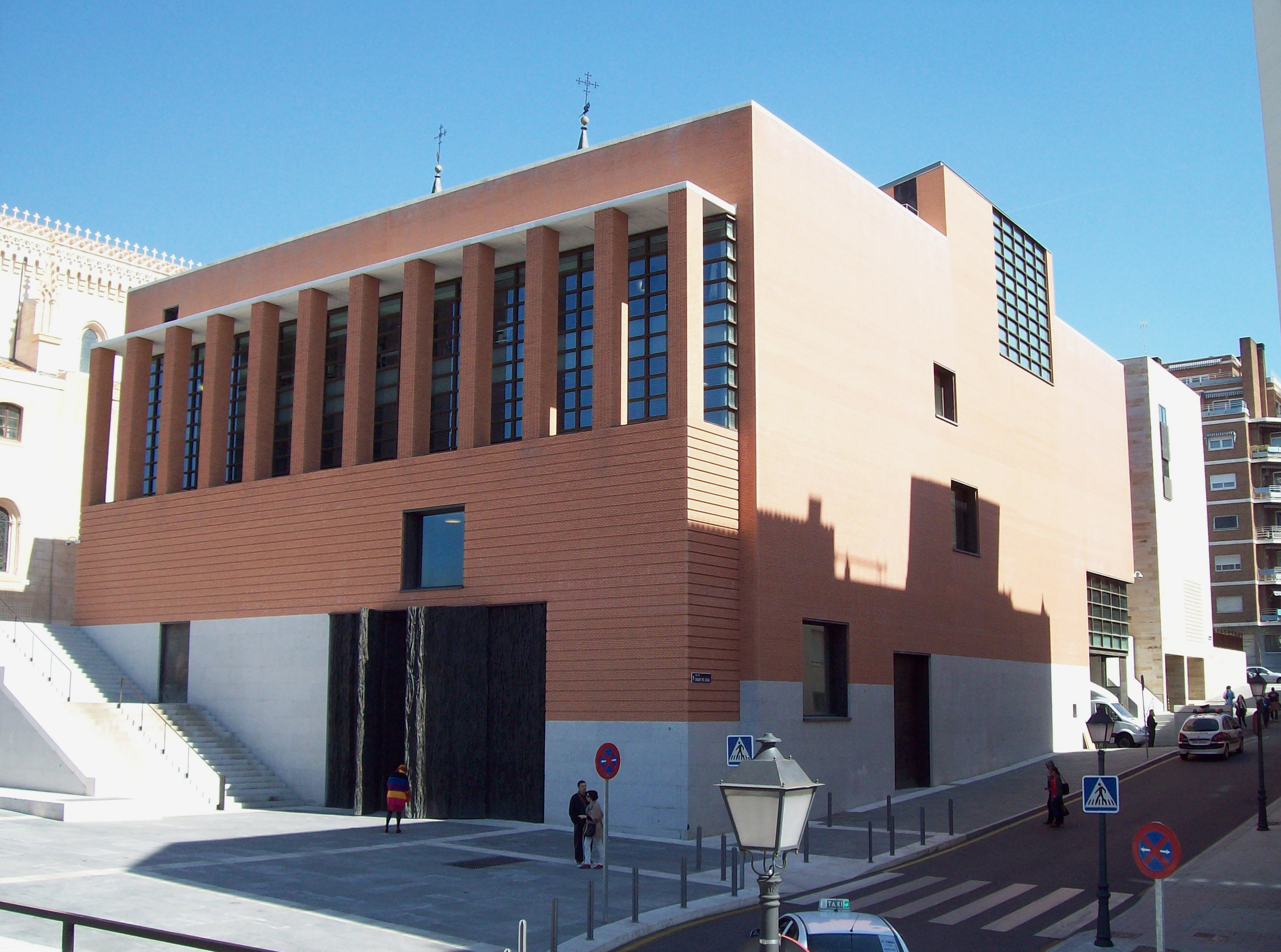 Extension of Prado Museum, in Madrid (Spain).